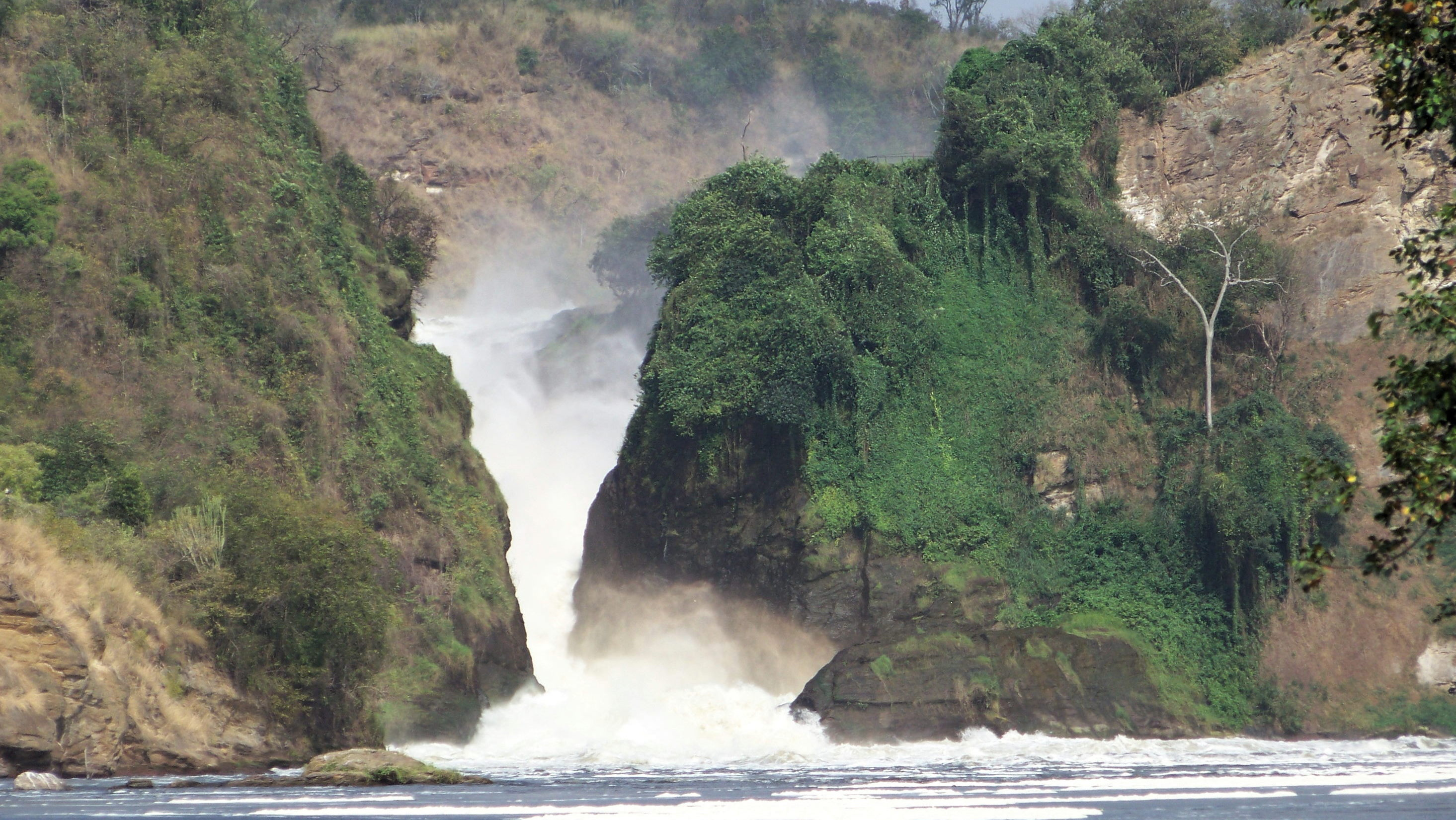 Murchison Falls seen from river Nile.